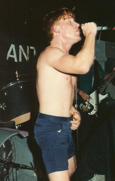 Singer Scott Reynolds of All performing at the Anti Club in Los Angeles, circa 1989/90.